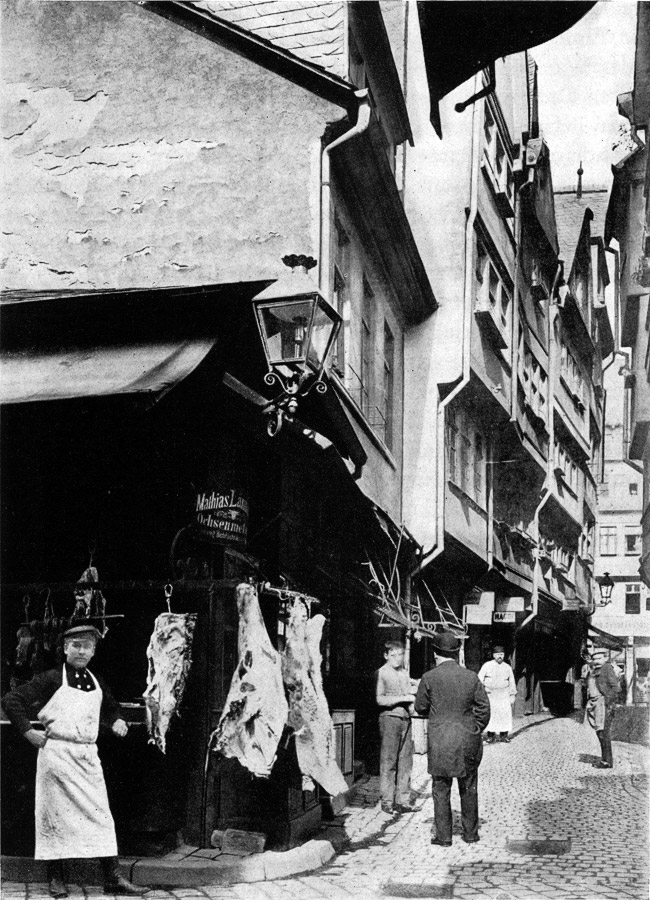 Frankfurt on the Main: Lange Schirn in the old town to the north, as seen from the Bendergasse